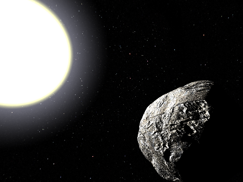 Artist's impression of a vulcanoid asteroid.